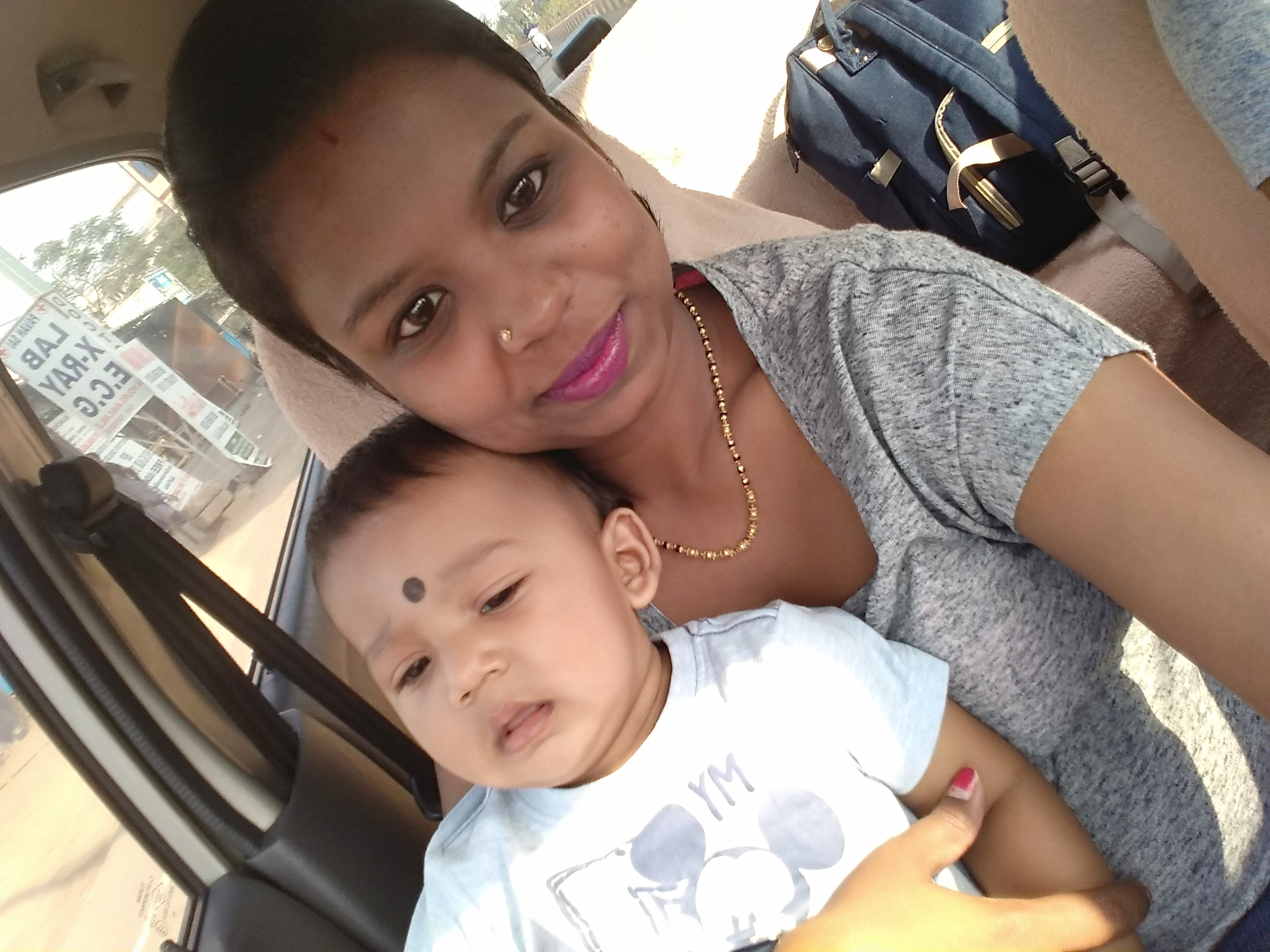 Mother's love is unconditional all around the globe